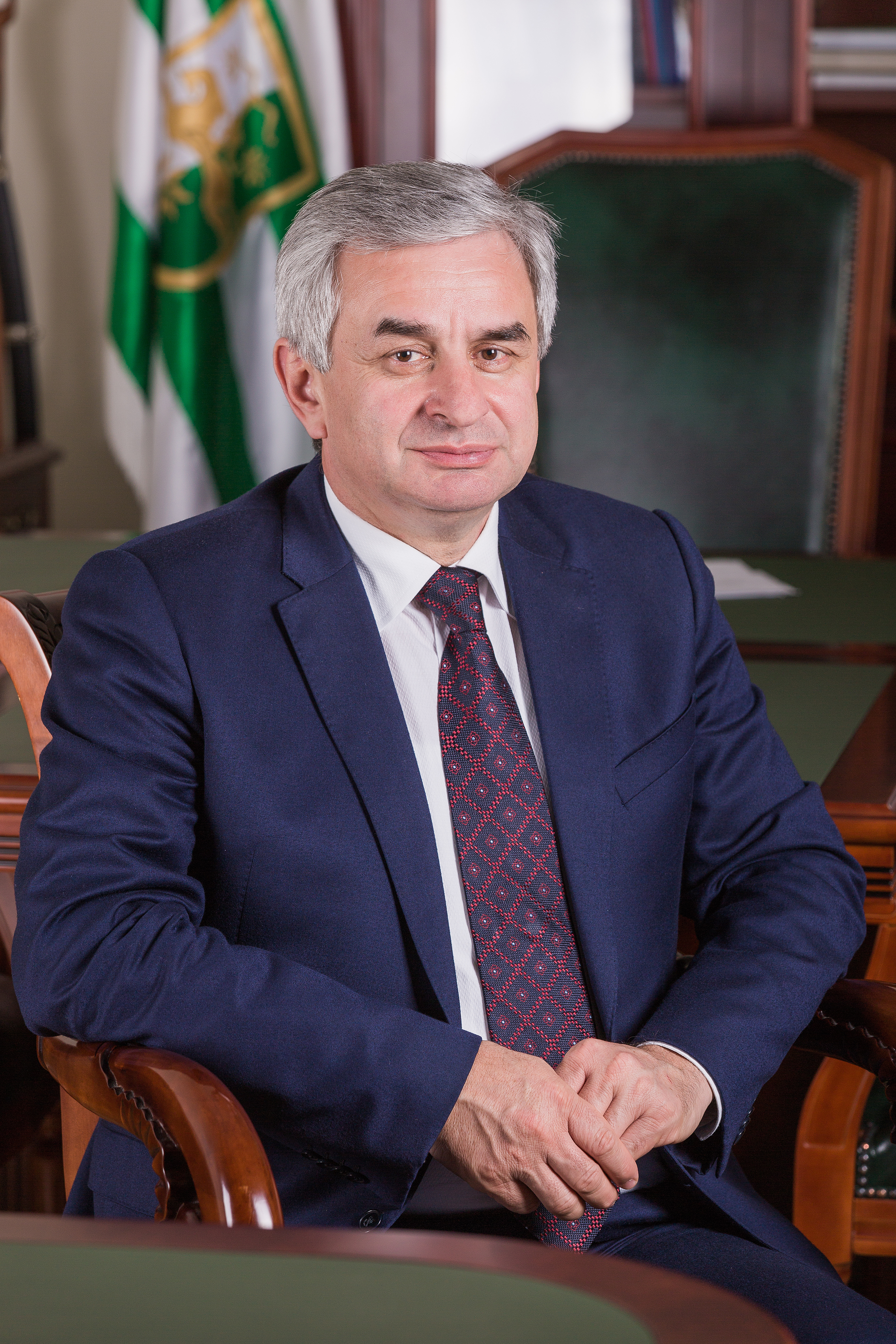 Official Photo of Raul Khajimba.